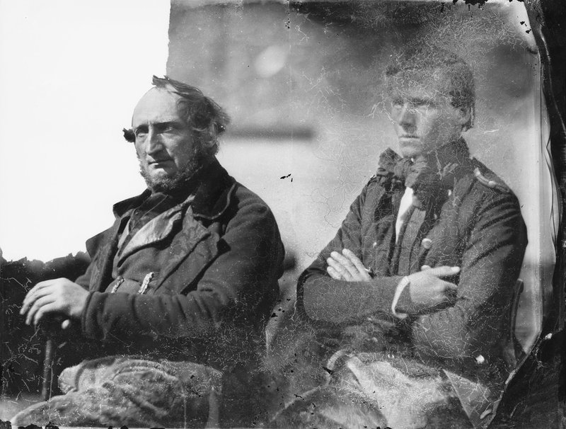 Photograph : Two European men, possibly Danish employees of the Royal Greenland Trade Company. Taken during Inglefield's expedition to resupply the Belcher expedition searching for William Franklin.